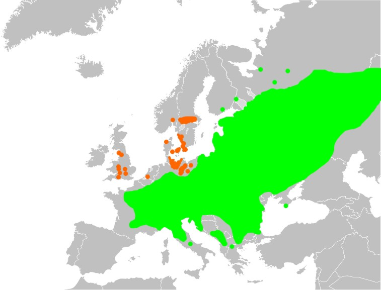 Range of Asarum europaeum. Based on J. Jalas & J. Suominen (eds.): Atlas florae europaeae. II. Green - natural range, orange - synanthropic.